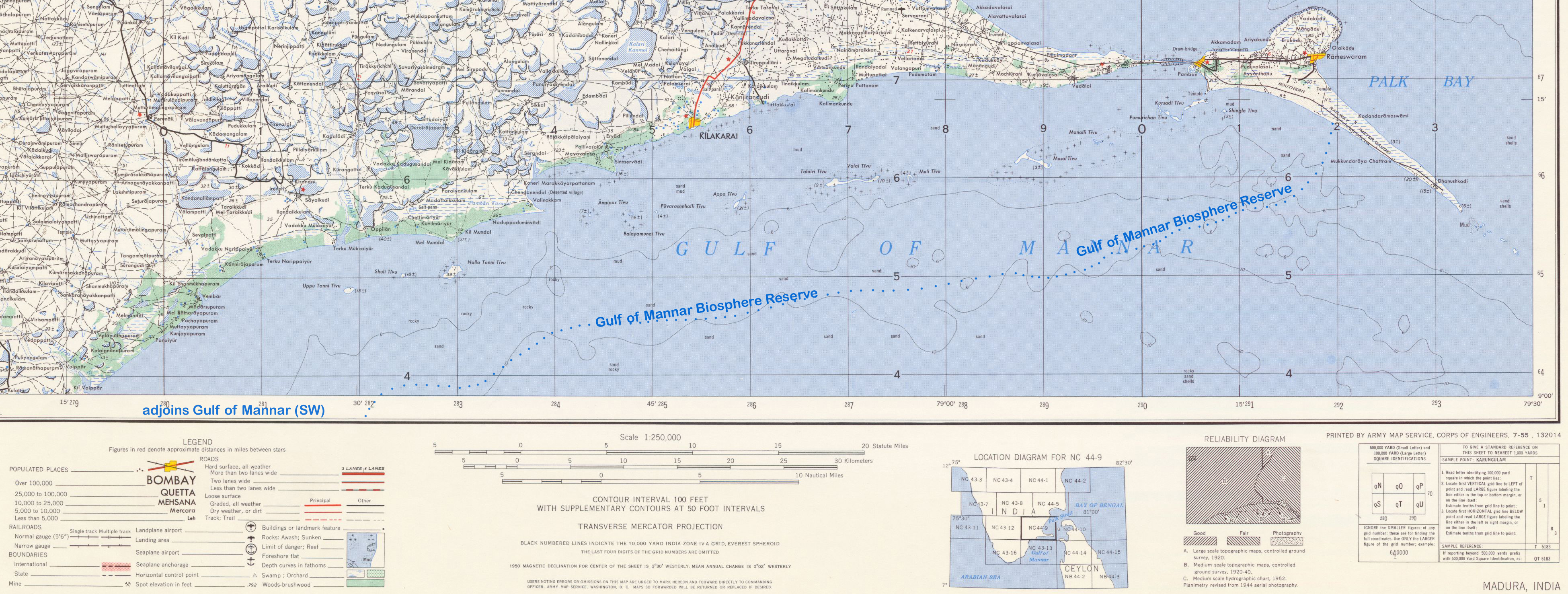 Gulf of Mannar (NW), Tamil Nadu, India